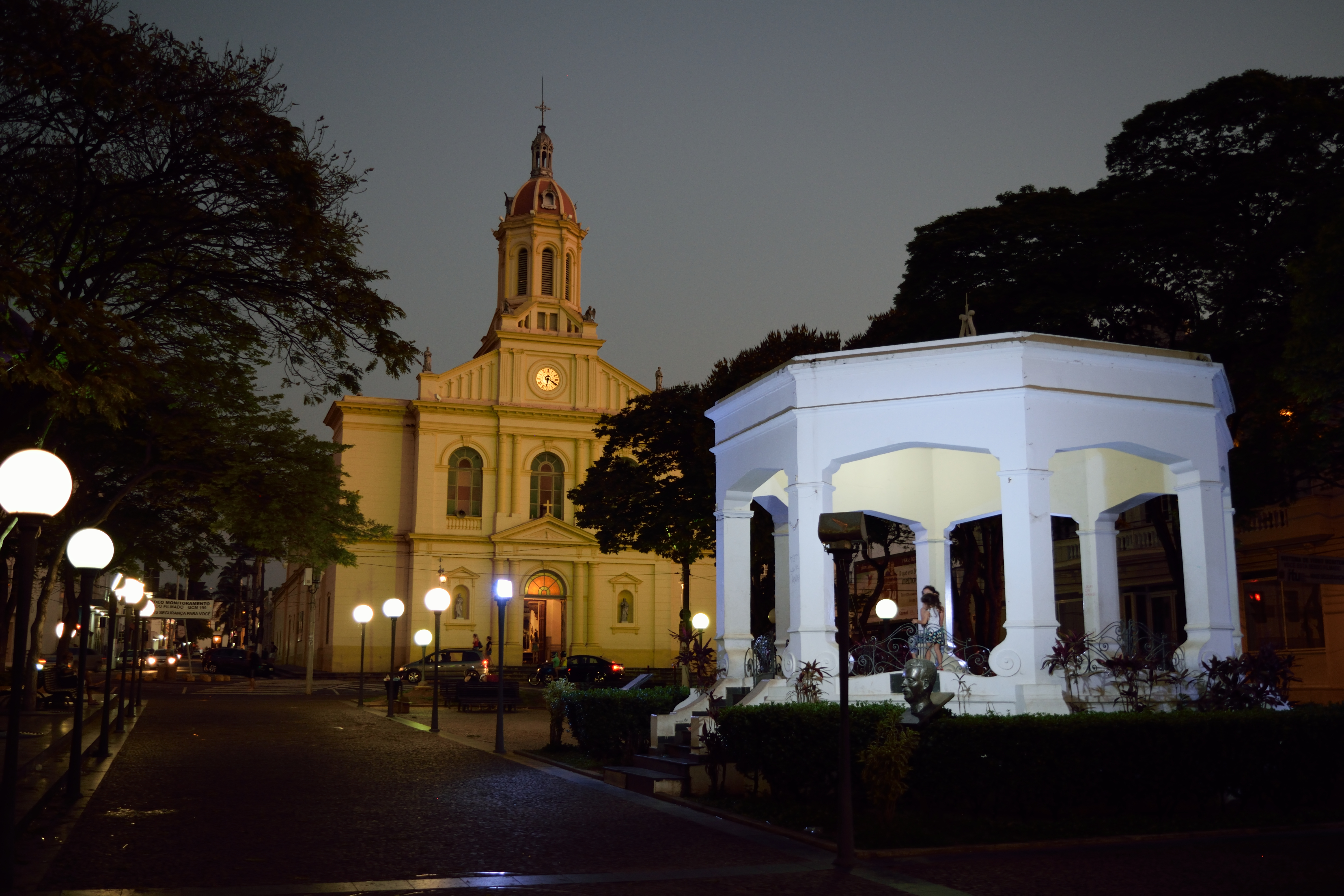 Church of the City of Itu, the Igreja de Nossa Senhora da Candelária, was originally built as the Capela de Nossa Senhora da Candelária do Otuguassú, recognized by the Curia in 1644 . Today, it houses an important cultural heritage of baroque and sacred art . In the picture, the facade of the Church in the context of Padre Miguel Square at night, with the gazebo and street lighting serving to frame the imposing facade and calm.